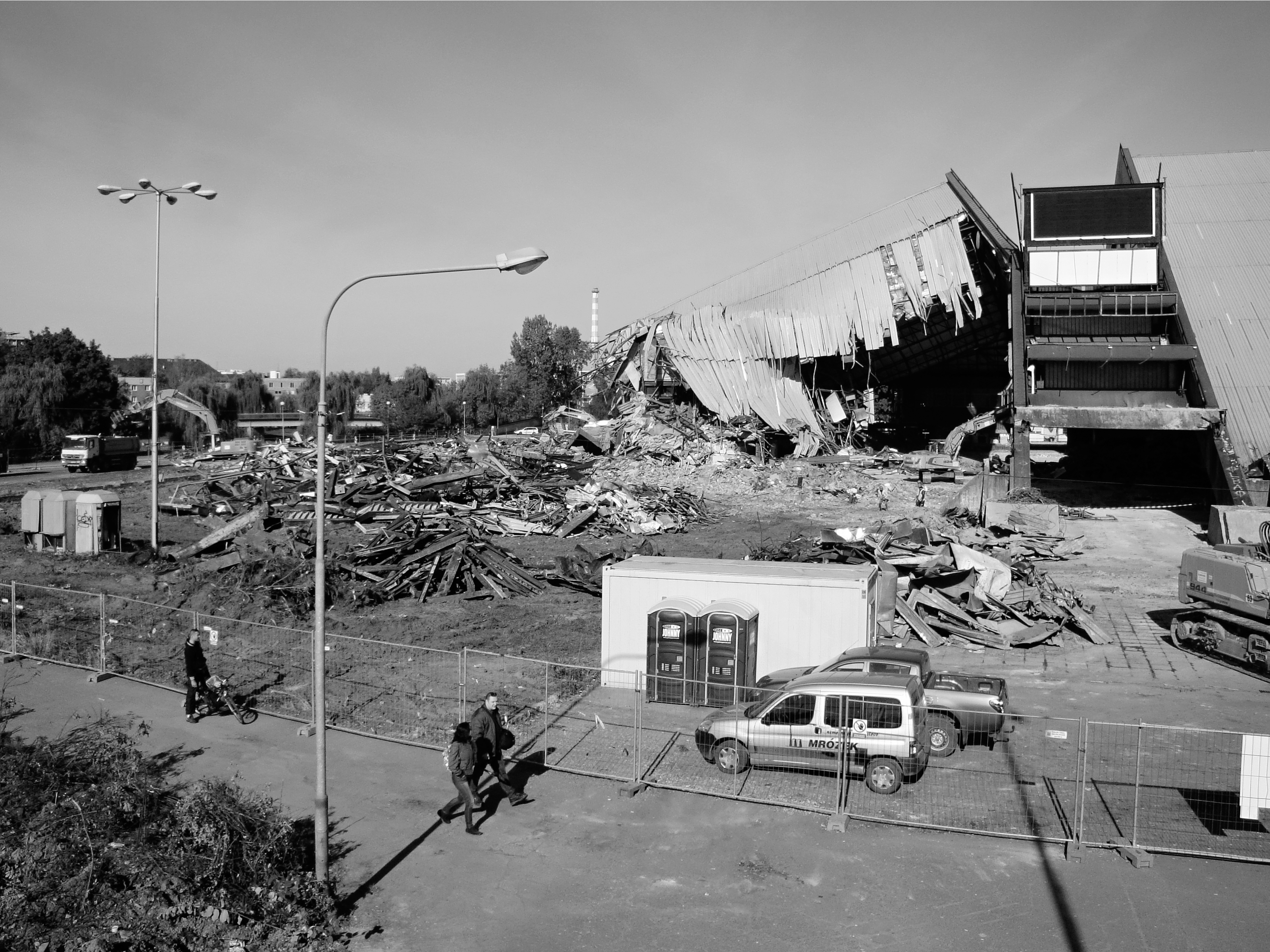 Frydek-Mistek, Czech Republic October 2013 This stadium was a symbol of the city. I never liked the building. For me it was an ugly monster. Many others were fighting to preserve the stadium as a unique architecture. Big discussion over the years. Never ending story. And now, last Saturday, I was walking around the city with a baby stroller and I was shocked..monster is going down. Finally, I thought for myself. Lots of the folks were watching and photographing this scenery, too. I started to talk to an older man with a camera: Me: So the city council finally made a decision to demolished it. Man: Yes they did. Unfortunately. Me: Well, it is a point to discuss, if it is good or not. He left. I think people are nostalgic about it. No wonder. It was standing there for about 30 years. They were building it for incredible 11 years. It was finished in 1985. They will build new and smaller stadium and a shopping mall on this location.Maybe ugly, maybe not. Maybe unique. Who knows. My earlier picture of the stadium from this spring. Thanks for favs and comments!